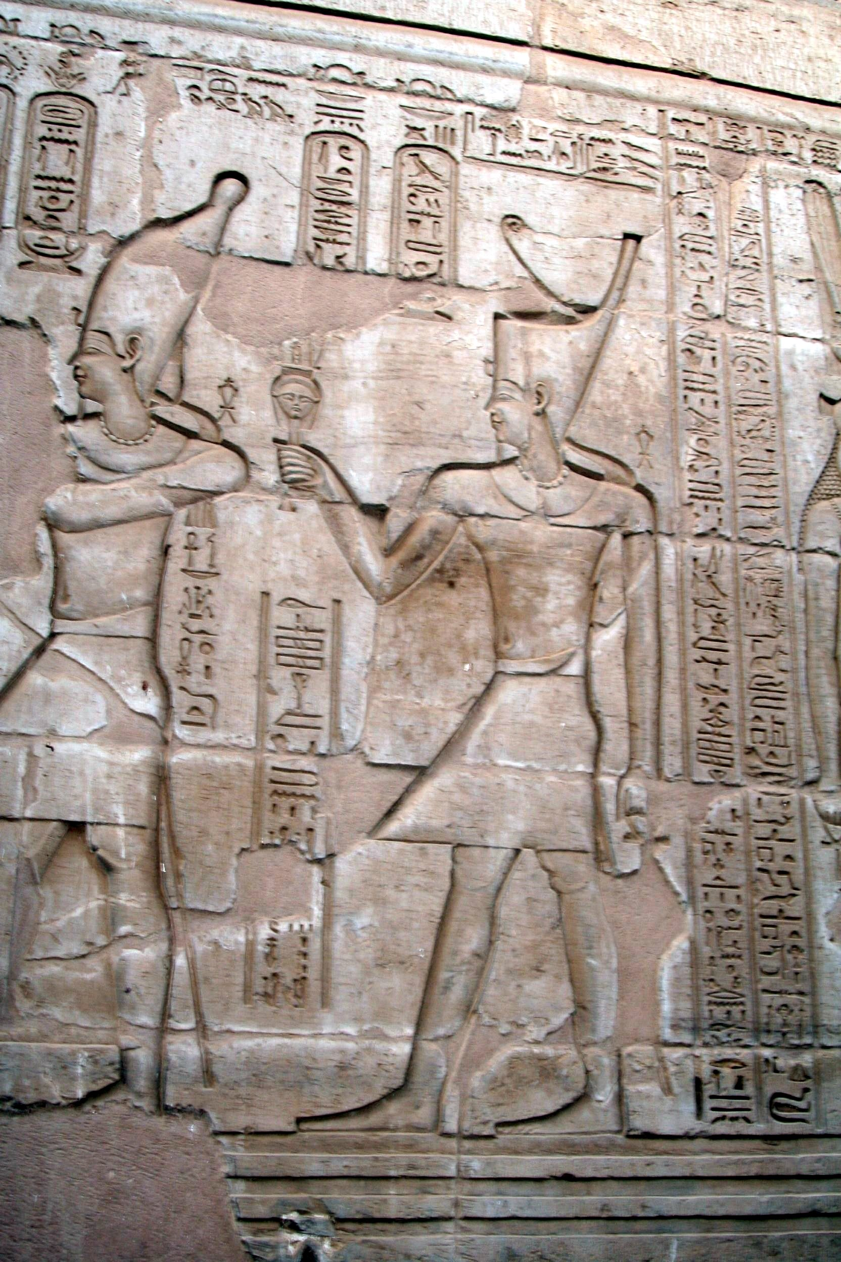 Kom Ombo - Temple of Sobek & Haroeris. Caracalla (Marcus Aurelius Antoninus)